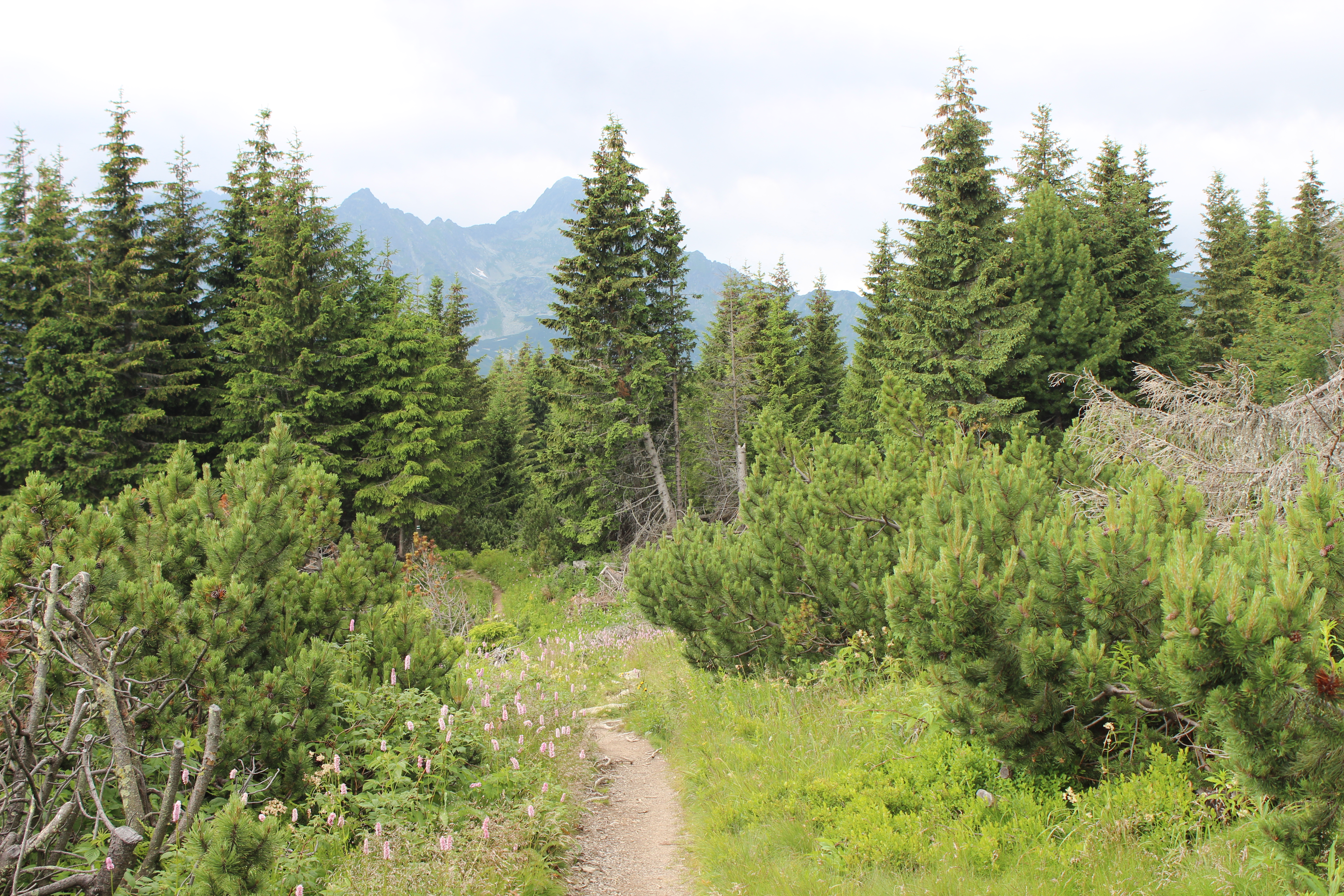 Belianske Tatra Mountains - trail between Plesnivec mountain hut and Velke Bieľe pleso. Slovakia This photograph was taken with a DSLR from WMCZ's Camera grant.